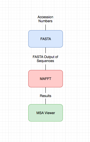 Steps on how to use MAFFT from start to finish